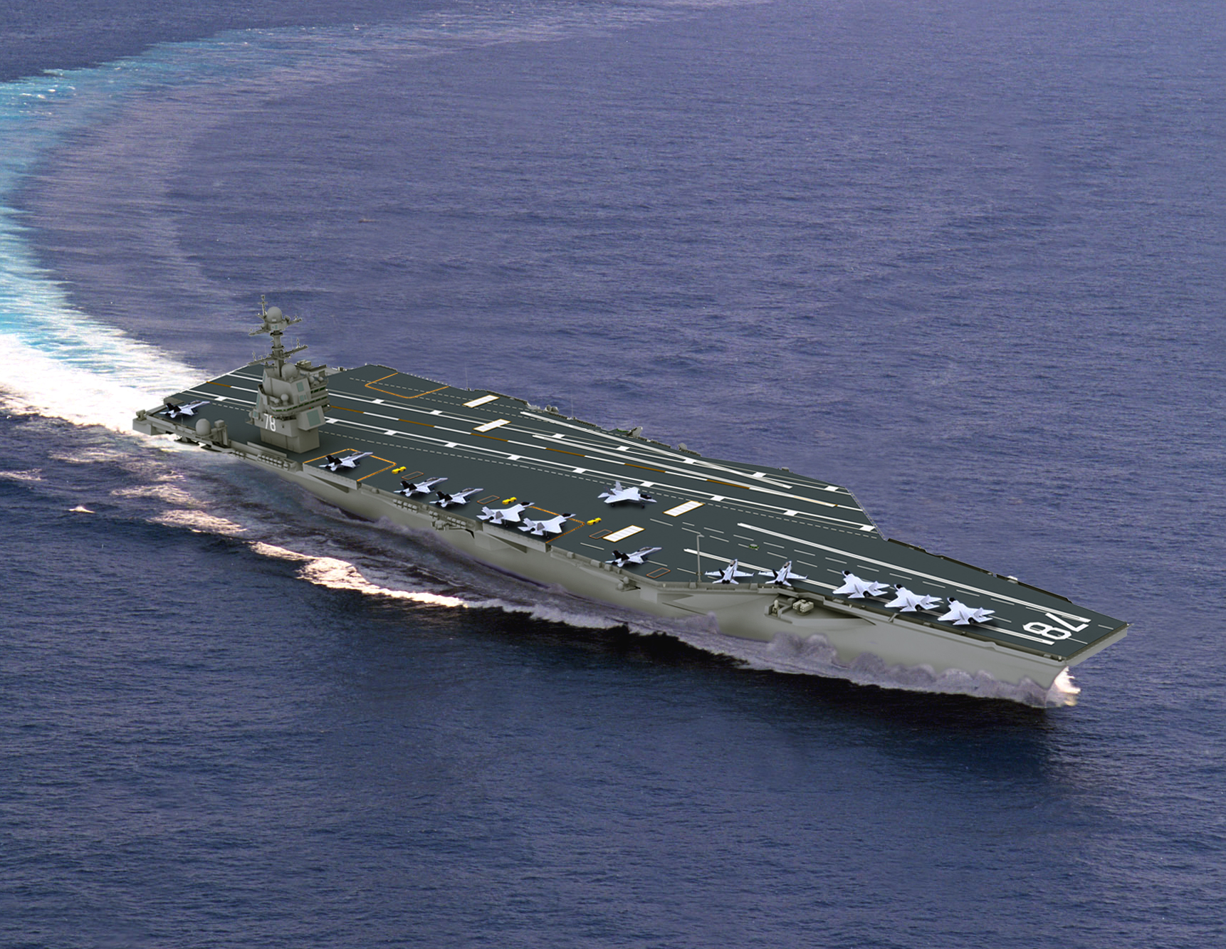 Artist's concept of CVN-78, a new class of aircraft carriers. A new nuclear propulsion plant will power the next class of aircraft carriers. The new plant will require fewer operators thereby lowering life-cycle costs, and will provide increased electrical power that will be available for the demands of developing technology. Smart sensors will assist in further reducing Navy watch standing requirements and in automating damage control functions such as detecting fire and flooding situations. Flight deck redesign and a transition to an advanced aircraft recovery system (AARS) will reduce crew workload, enhance safety and reduce the costs of operating and maintaining a carrier throughout its planned 50-year life cycle.